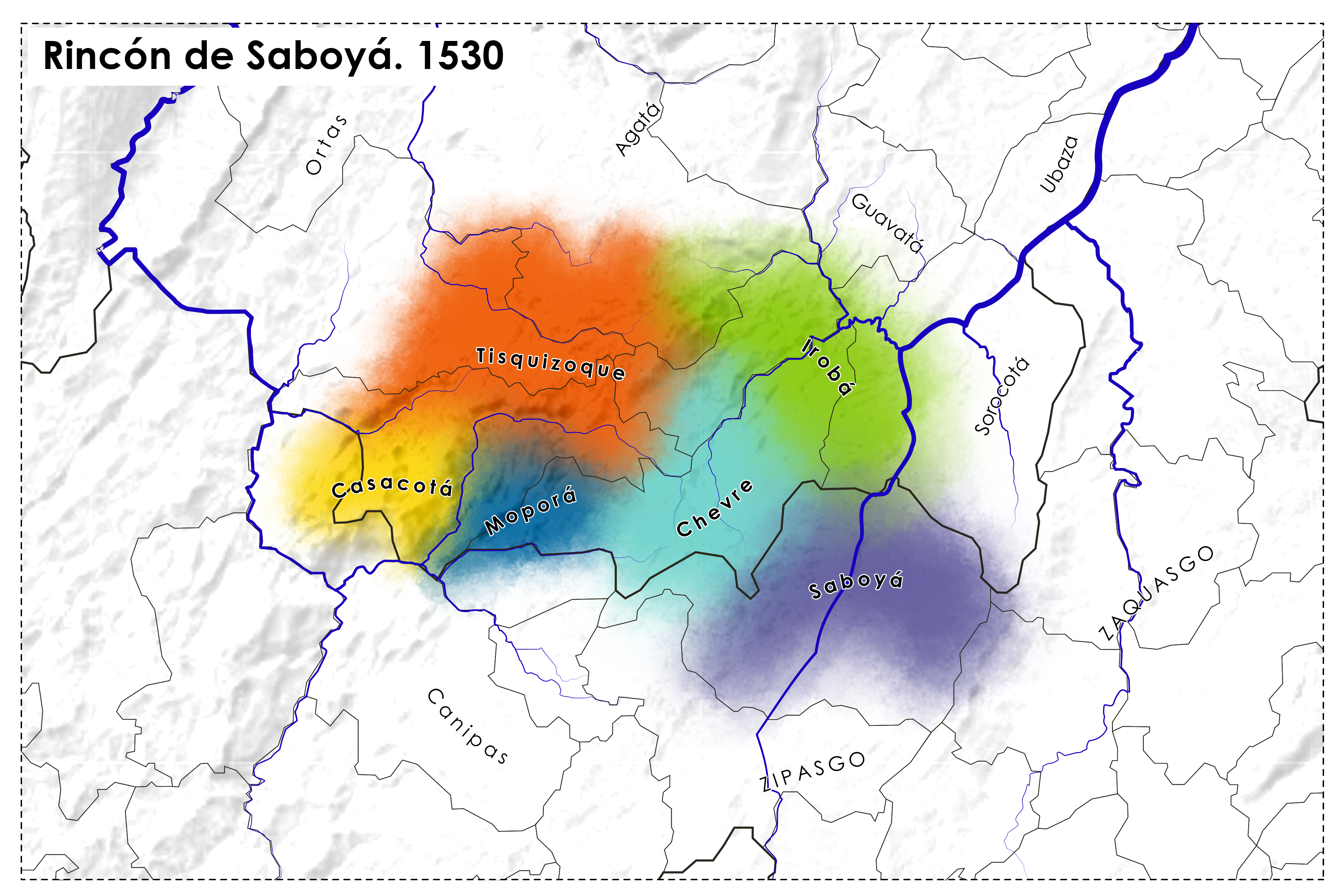 Indigenous peoples in Santander